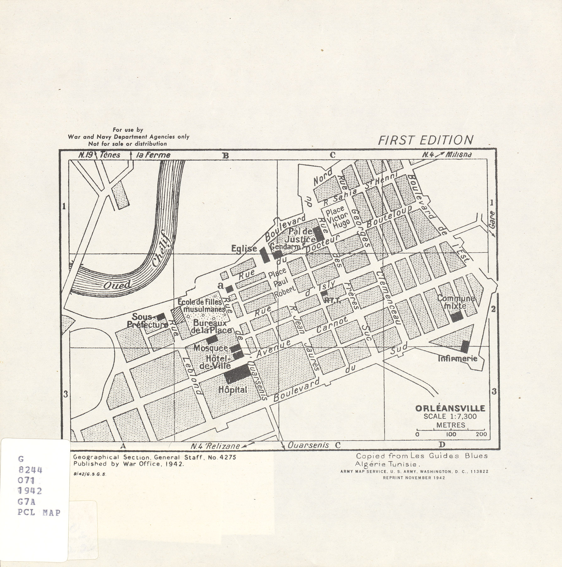 Map of Orléansville (Chlef), Algeria